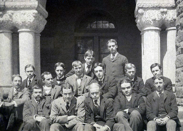 Photograph of 15 men, all believed to be Harvard Law Students, outside Austin Hall in Harvard Law School. Learned Hand is seated in the front row, second from right. He would later go on to be chief judge of the United States Court of Appeals for the Second Circuit. He is considered by many as the most influential judge not to have served in the United States Supreme Court.